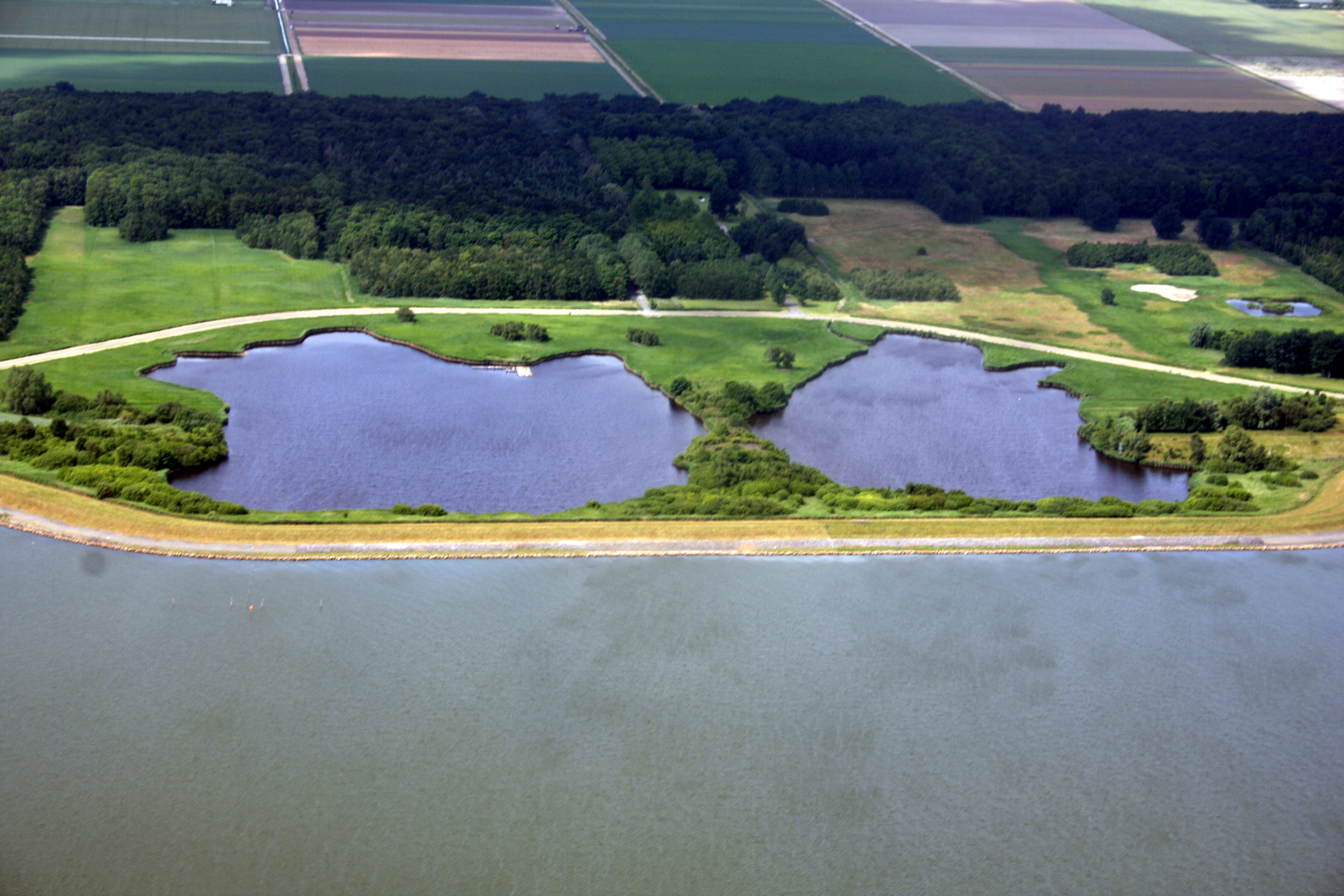 Place where the dike in the Wieringermeer was breached in the second world war.